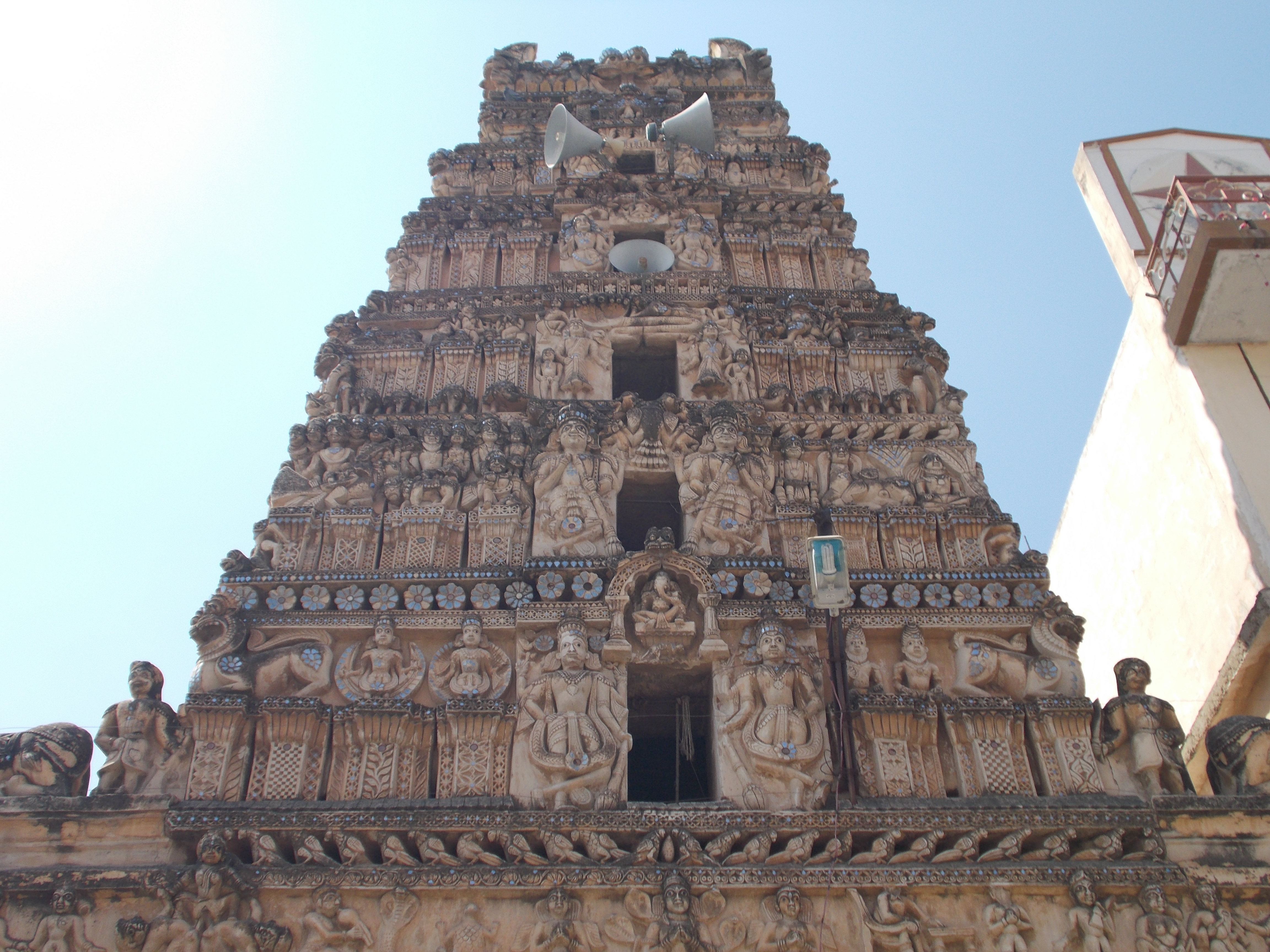 temple,rayadurg,andhrapradesh